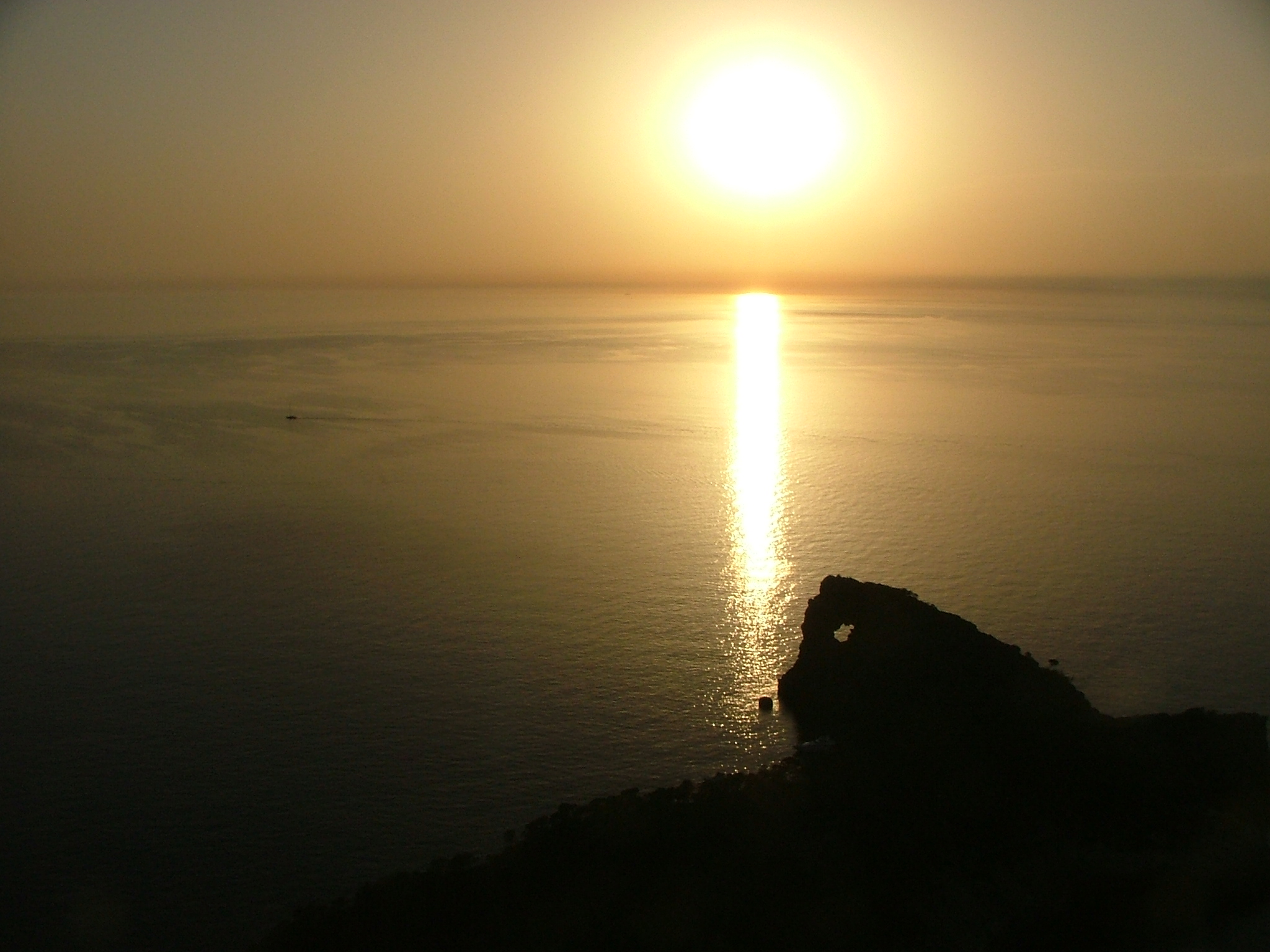 na Foradada from Son Marroig in Deià, Mallorca, Spain